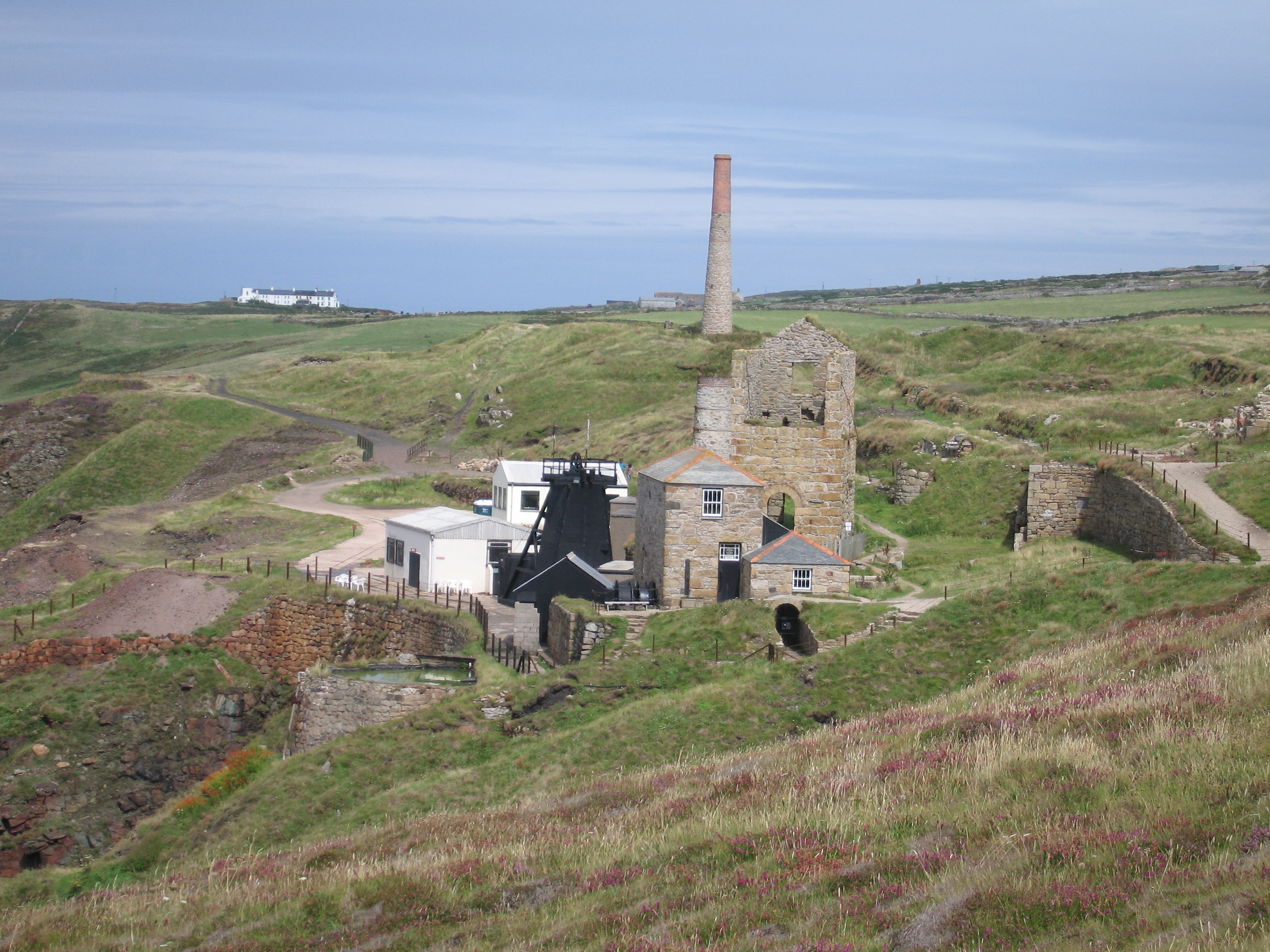 The Levant Mine is an old tin and copper mine that was worked for more than 200 years. It was closed on October, 1930, and reached approximately 700 meters below sea level. Lelant Engine, near Pendeen in Cornwall